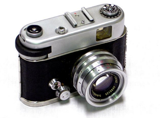 Robot Star II Vollautomat